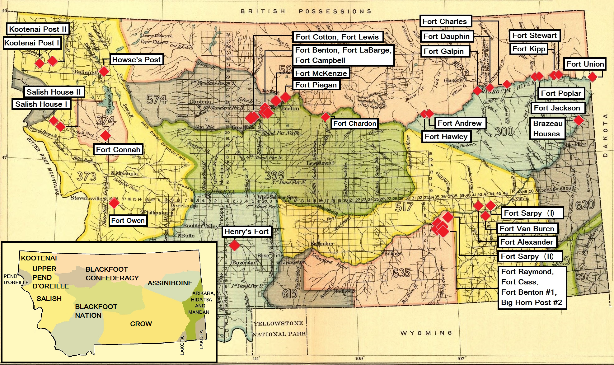 Map with a number of smaller and bigger fur Trading posts in Montana. The colours show the Indian territories as described in the first treaties Map addapted to fur trade article